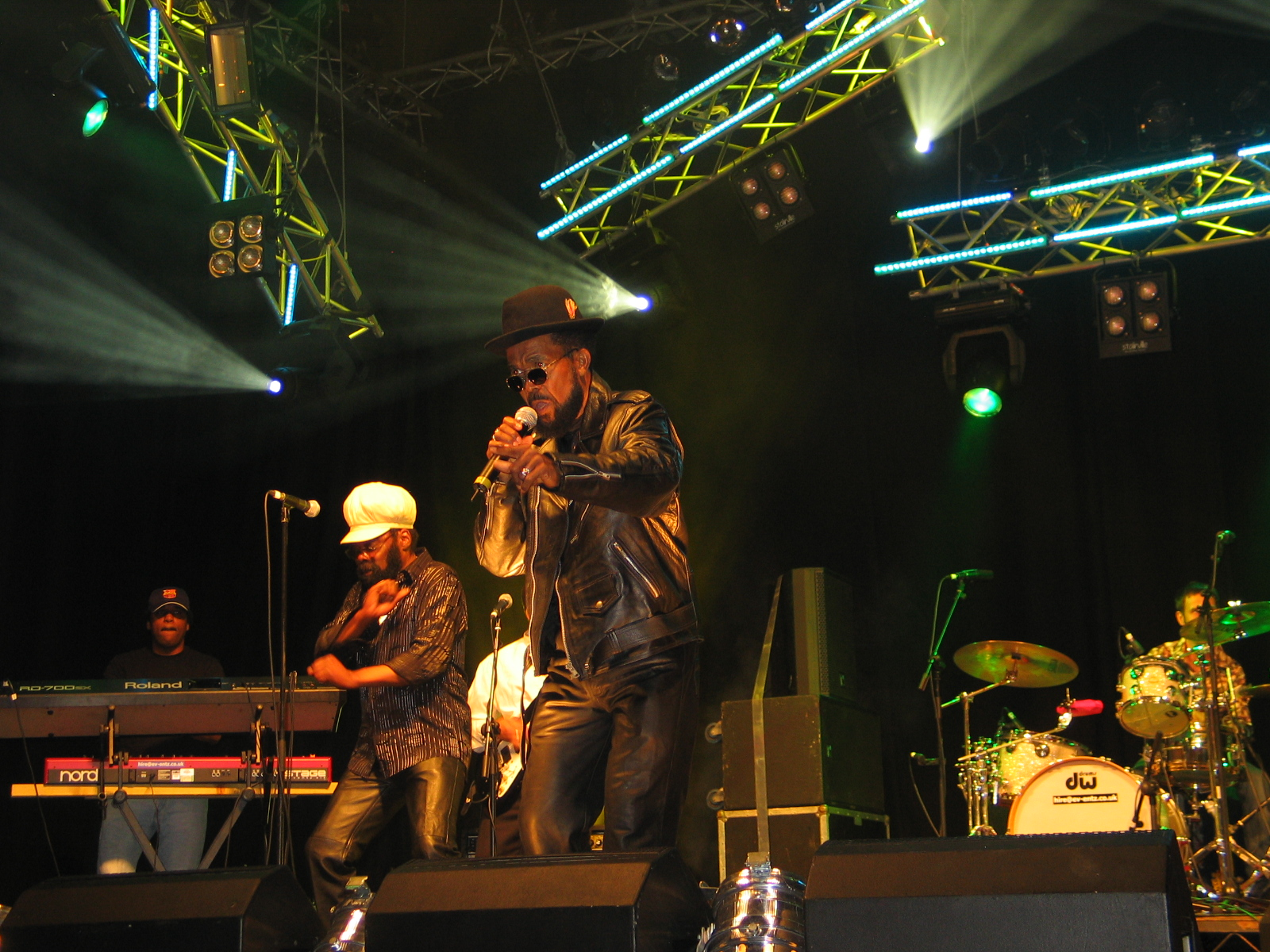 Prince Buster performing with Delroy Williams and The Junction Band at the Cardiff Festival, Cardiff, UK